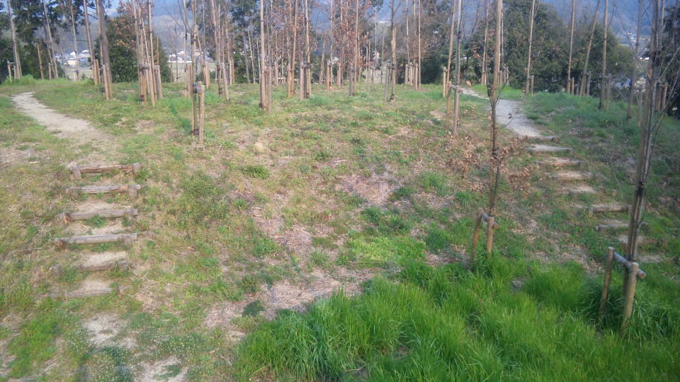 Ikazuchi no oka ("Ikazuchi Hill") in Asuka, Nara, Japan